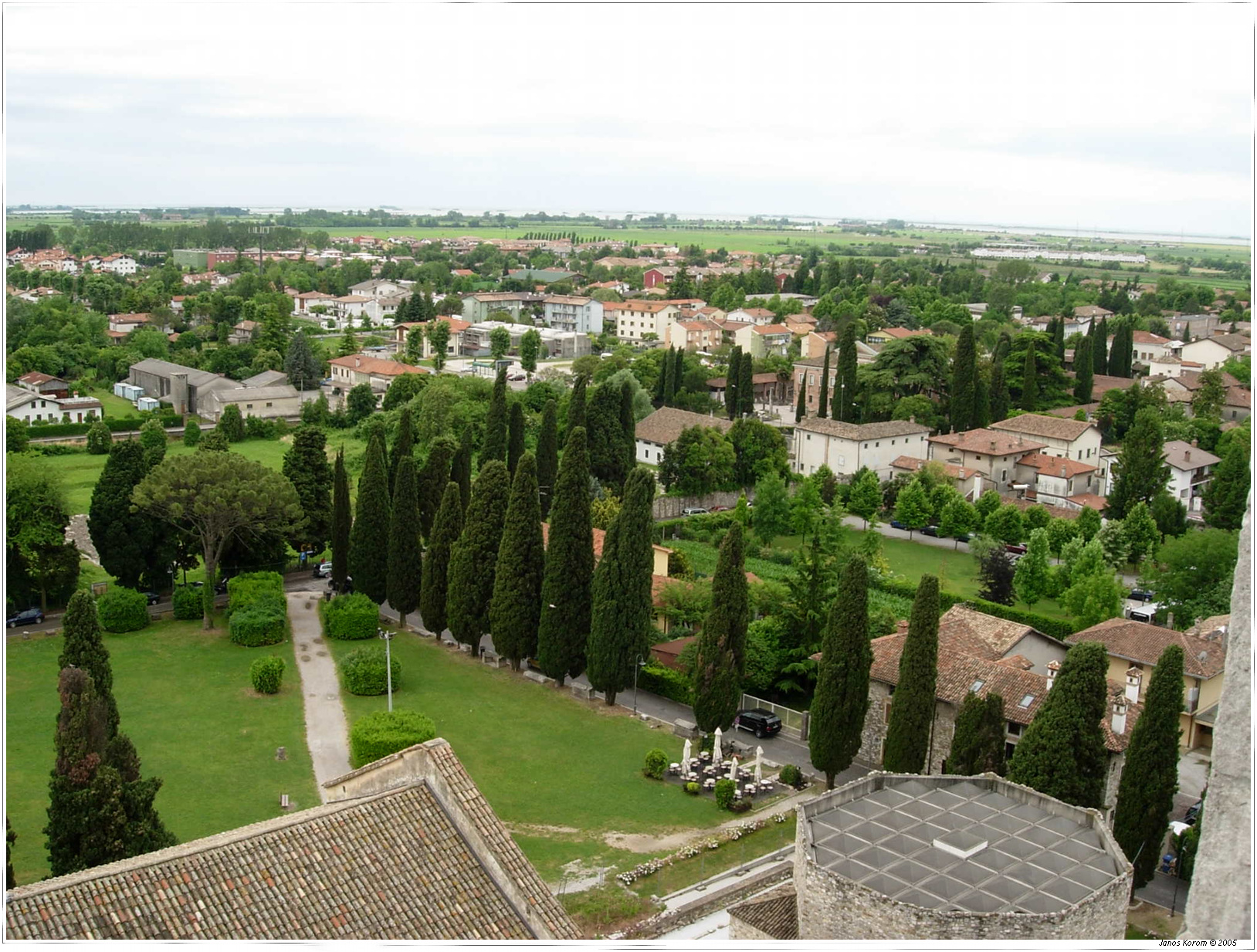 View over the city of Aquileia